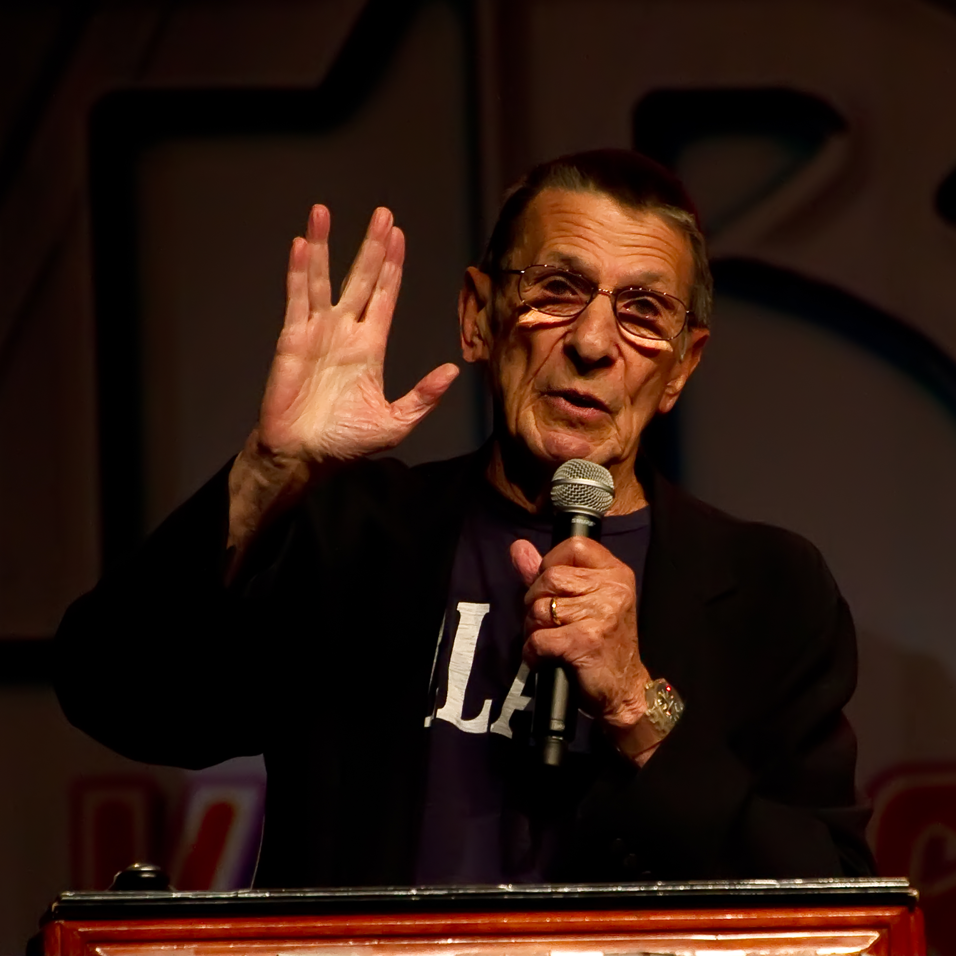 Leonard Nimoy (Spock) at the Las Vegas Star Trek Convention 2011.